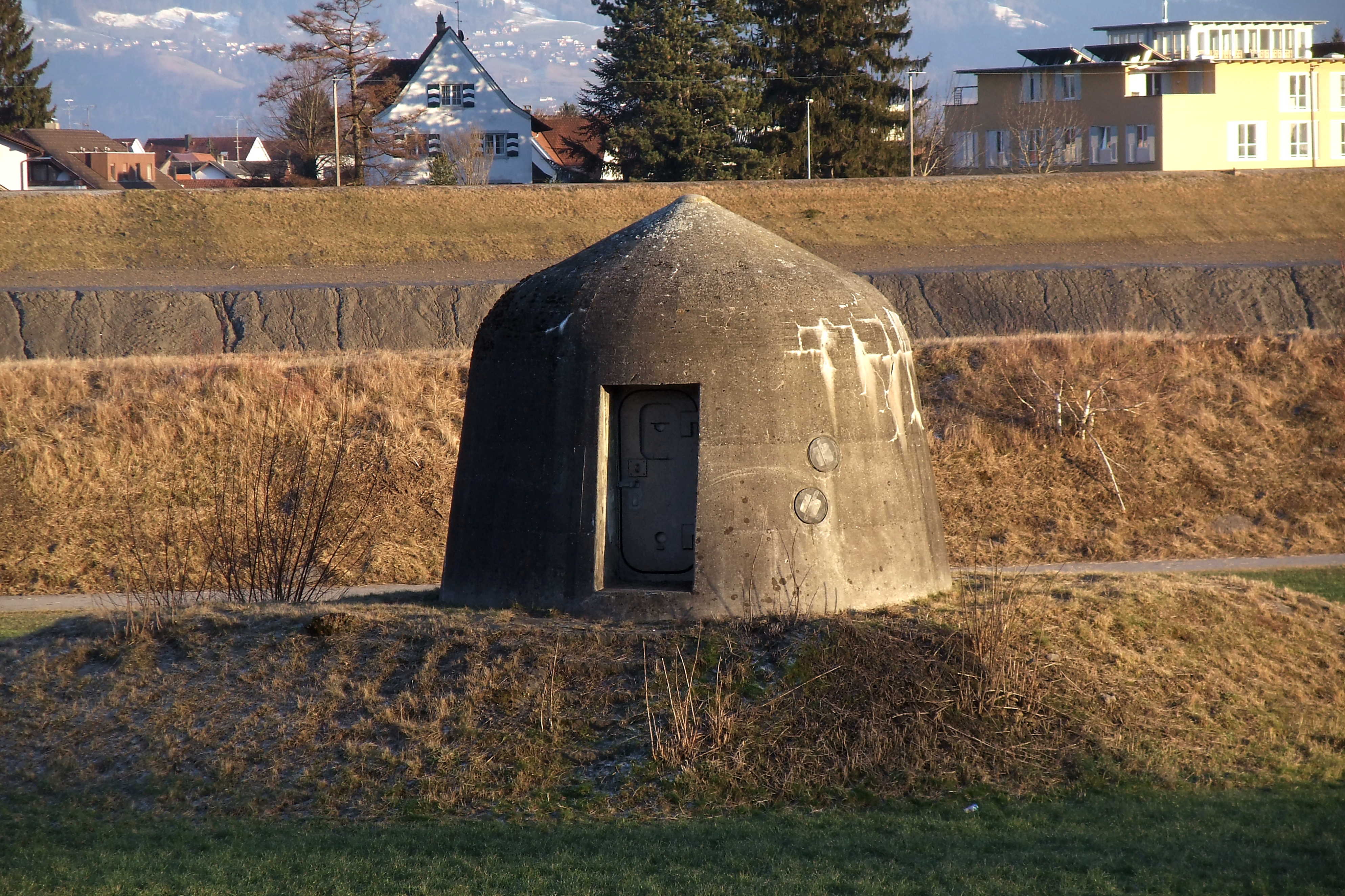 The land of bunkers and fortifications. Here a very small one, also called 'Zuckerstockbunker'. From 1937 on, these dome-shaped bunkers were built in the foreland along the Rhine frontier. They were used to protect the Rhine crossings. The door is welded. Au(SG), Switzerland, Jan 16, 2012: Sperrstelle Au SG, Grenzbrigade 8.